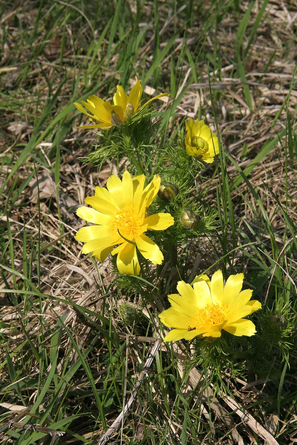 Adonis vernalis from Český kras, Czech republic near Beroun Autor:Prazak